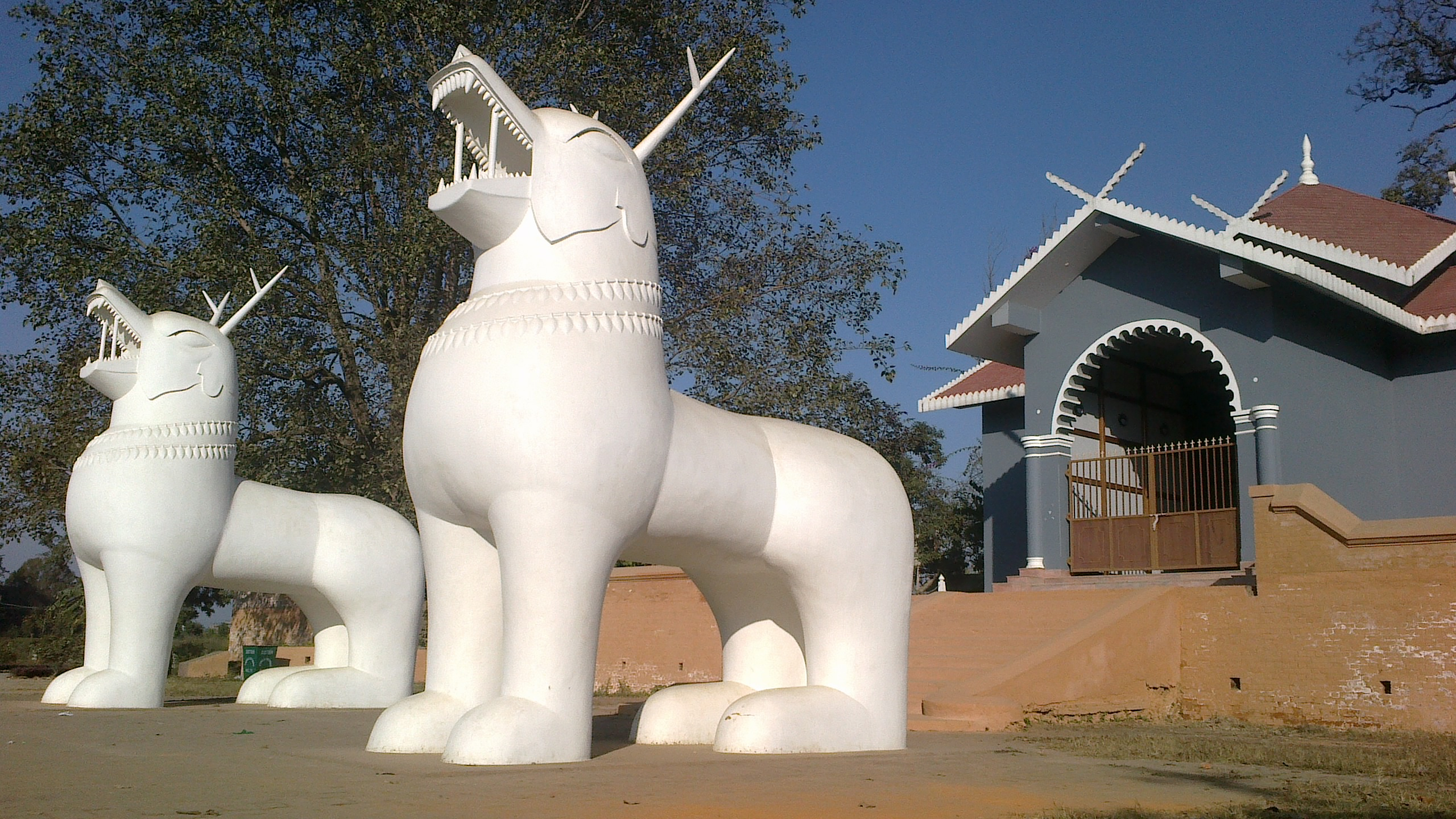 It is situated at proper Imphal into the Kangla heritage site and it is called "Kangla Uttra Sang". At the time of british colonization five British officers namely 1. Mr.J.W.Quinton (Chief Commissioner of Assam), 2. Mr. Cossins (Assistant Secretary to the Chief Commissioner), 3. Mr. Grimwood (Political Agent), 4. Lieutenant colonel Skene (42nd Gurkha Regiment) and 5. Lieutenant Simpson (43rd Gurkha Regiment) were killed at front of this Kangla Uttra Sanglen. As a revenge British bombardment this site in 1891, and rebuilt in 2011.